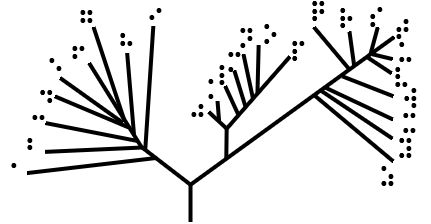 Phylogenetic tree based on The lowest point of the tree is the root, which symbolizes the universal common ancestor to all living beings. The tree branches out into three main groups: Bacteria (left branch, letters a to i), Archea (middle branch, letters j to p) and Eukaryota (right branch, letters q to z). Each letter corresponds to a group of organisms, listed below (in Braille on the figure): a- Aquifex b- Thermotoga c- Bacteroides Cytophaga d- Planctomyces e- Cyanobacteria f- Proteobacteria g- Spirochetes h- Gram positives i- Green Filamentous Bacteria j- Pyrodicticum k- Thermoproteus l- T. celer m- Methanococcus n- Methanobacterium o- Methanosarcina p- Halophiles q- Entamoebae r- Slime molds s- Animals t- Fungi u- Plants v- Ciliates w- Flagellates x- Trichomonads y- Microsporidia z- Diplomonads